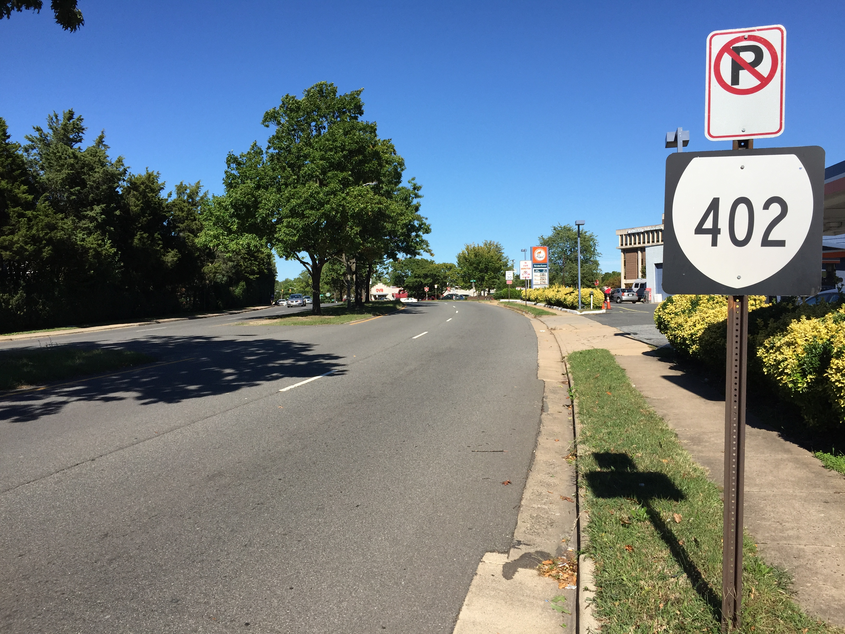 View north along Virginia State Route 402 (Quaker Lane) at 36th Street in Alexandria, Virginia